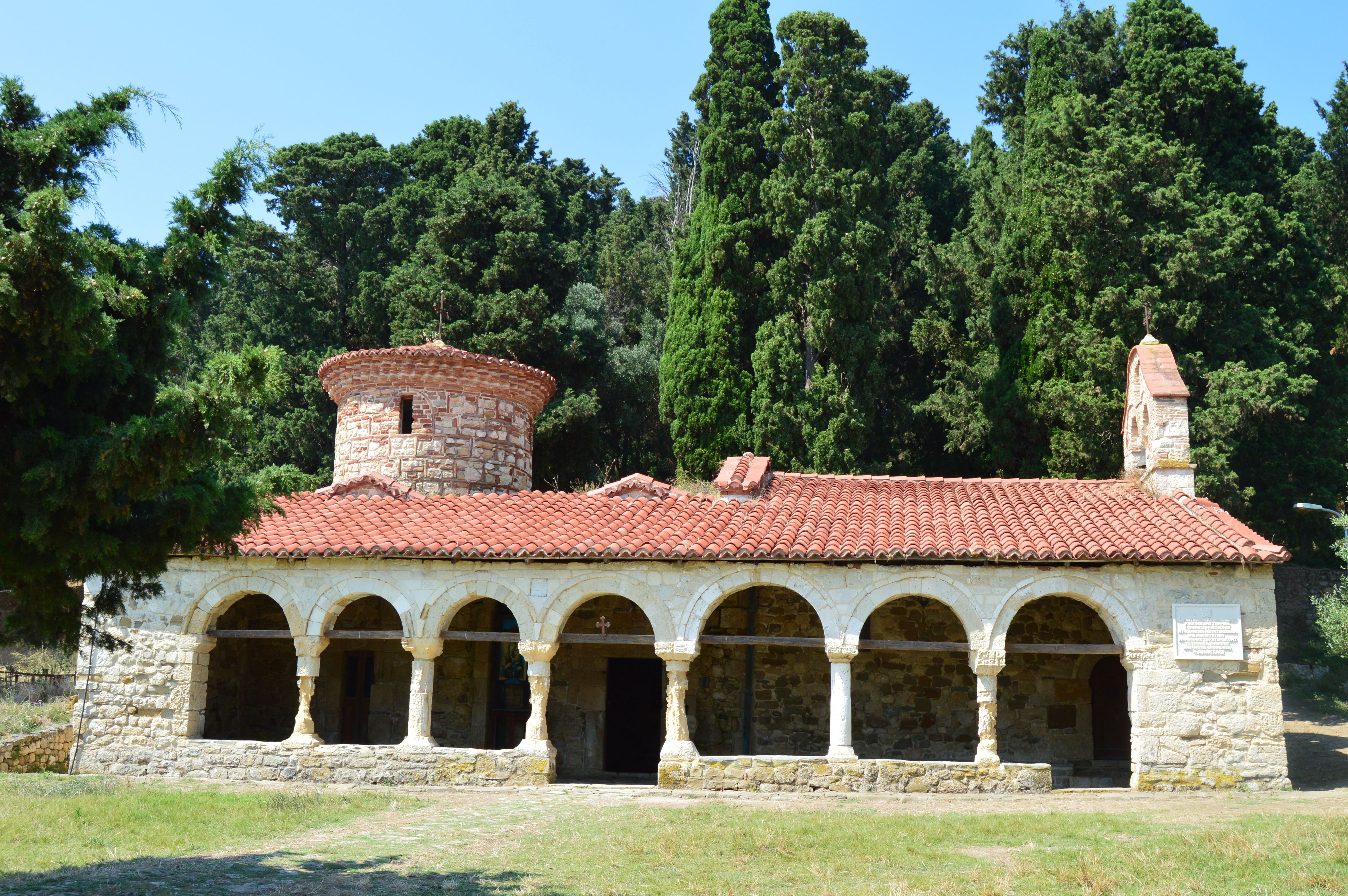 The main view of the monastery